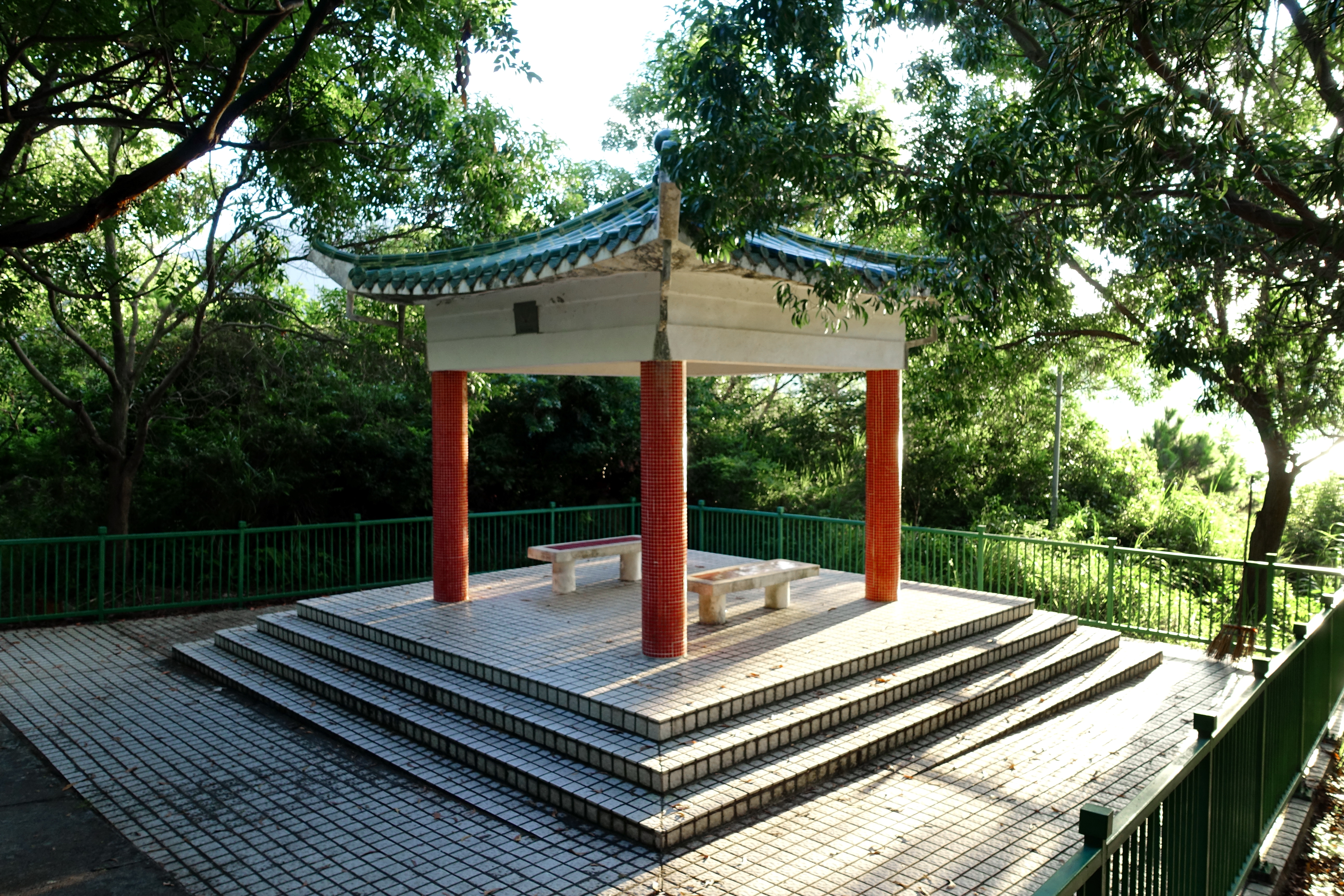 A pavilion at the Tung Chung Battery Trail, Hong Kong.